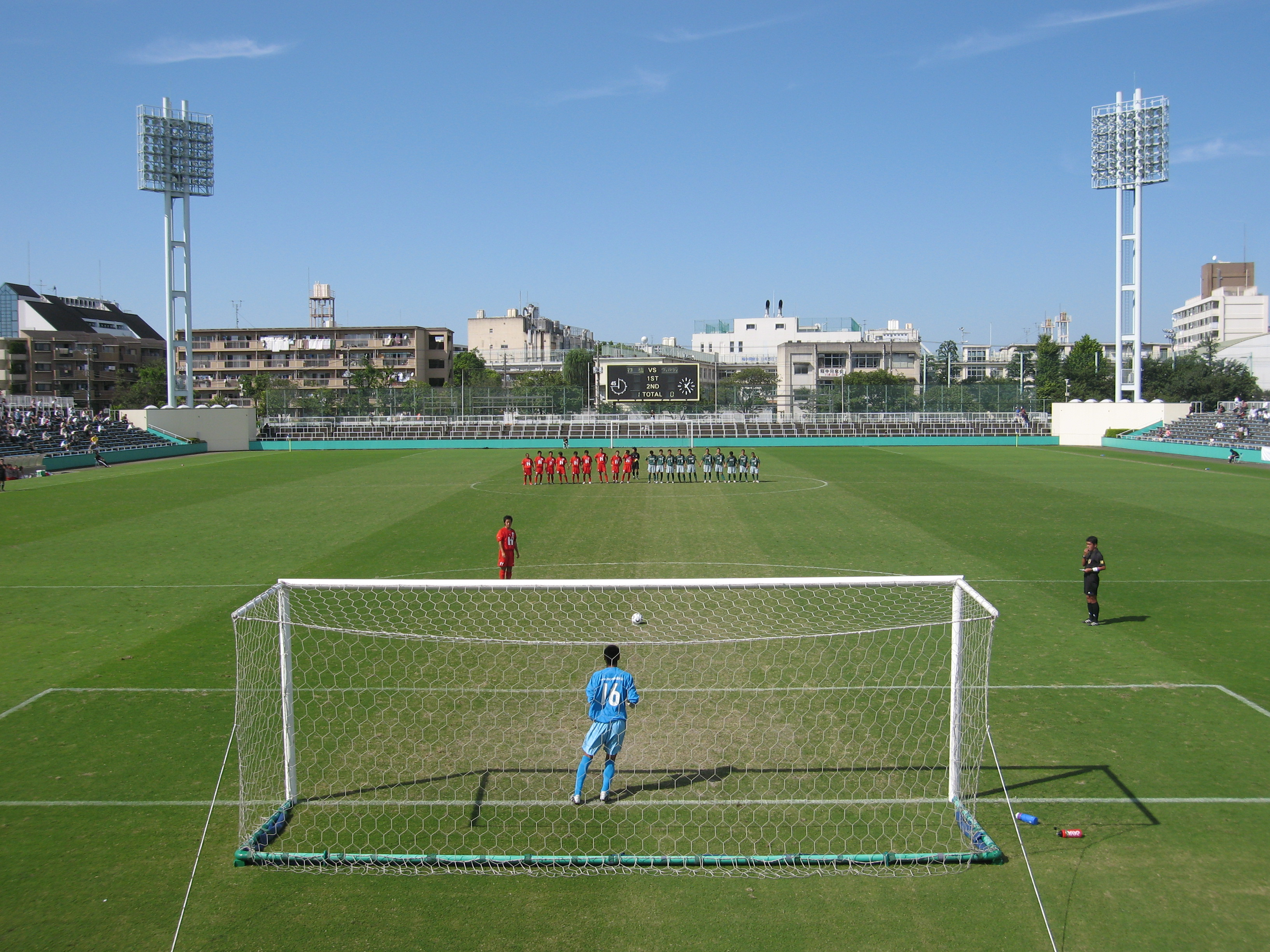 Penalty shootout"National nisigaoka soccer stadium"at Tokyo, Japan